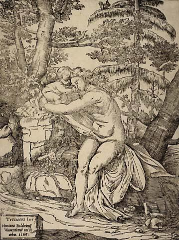 Artwork Overview Artist:Nicolò Boldrini, Tiziano Vecellio (known as Titian) Production Date:1566 Medium:woodcut Size (hxw):311 x 235 mm Classification:Print Department:International Art Subject Classes: Subject Place: Credit Line:Auckland Art Gallery Toi o Tāmaki, purchased 1957 Aquisition Method: Accession Date:1957 Accession No:1957/31/2 Copyright:No known copyright restrictions